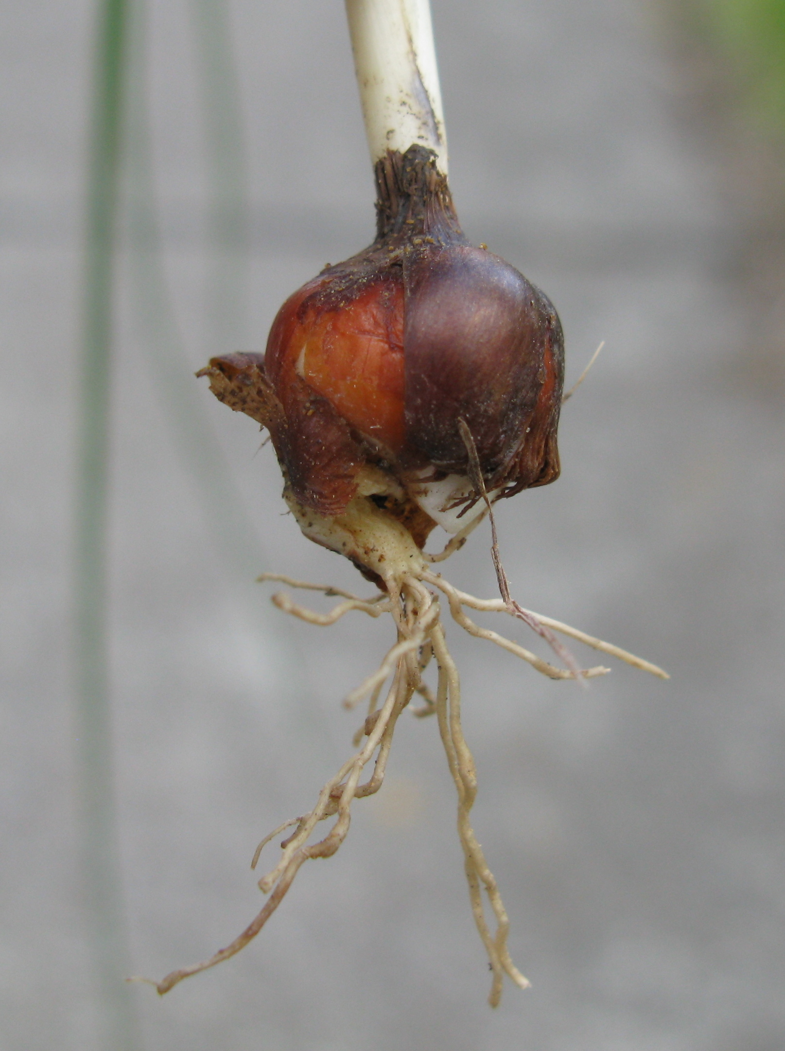 Introduced, cool season, perennial,small herb with a globose corm, no aerial stem and annual aerial leaves and flowers. Leaves several, basal, 8–40 cm long, 1–2.5 mm wide, compressed, grooved and tough. Flowers are solitary. Perianth tubes formed from 6 tepals are 2–4 mm long and yellow; lobes are 10–18 mm long and pale to bright pink, rarely white; outer tepals are dark-striped or greenish outside. Stigmas are exceeded by anthers. Capsules are cylindrical, about 1 cm long, on decurved scapes that straighten at maturity. Flowering is in late winter and spring. A native of South Africa, it is a common weed of pastures, lawns and roadsides